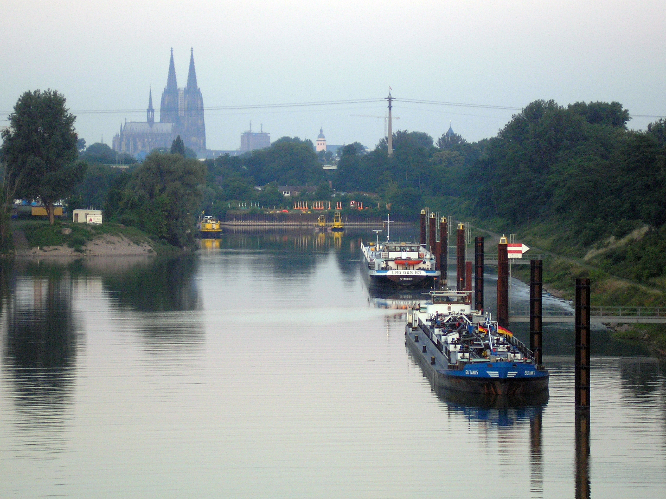 Cologne, Rhine, Rhineport